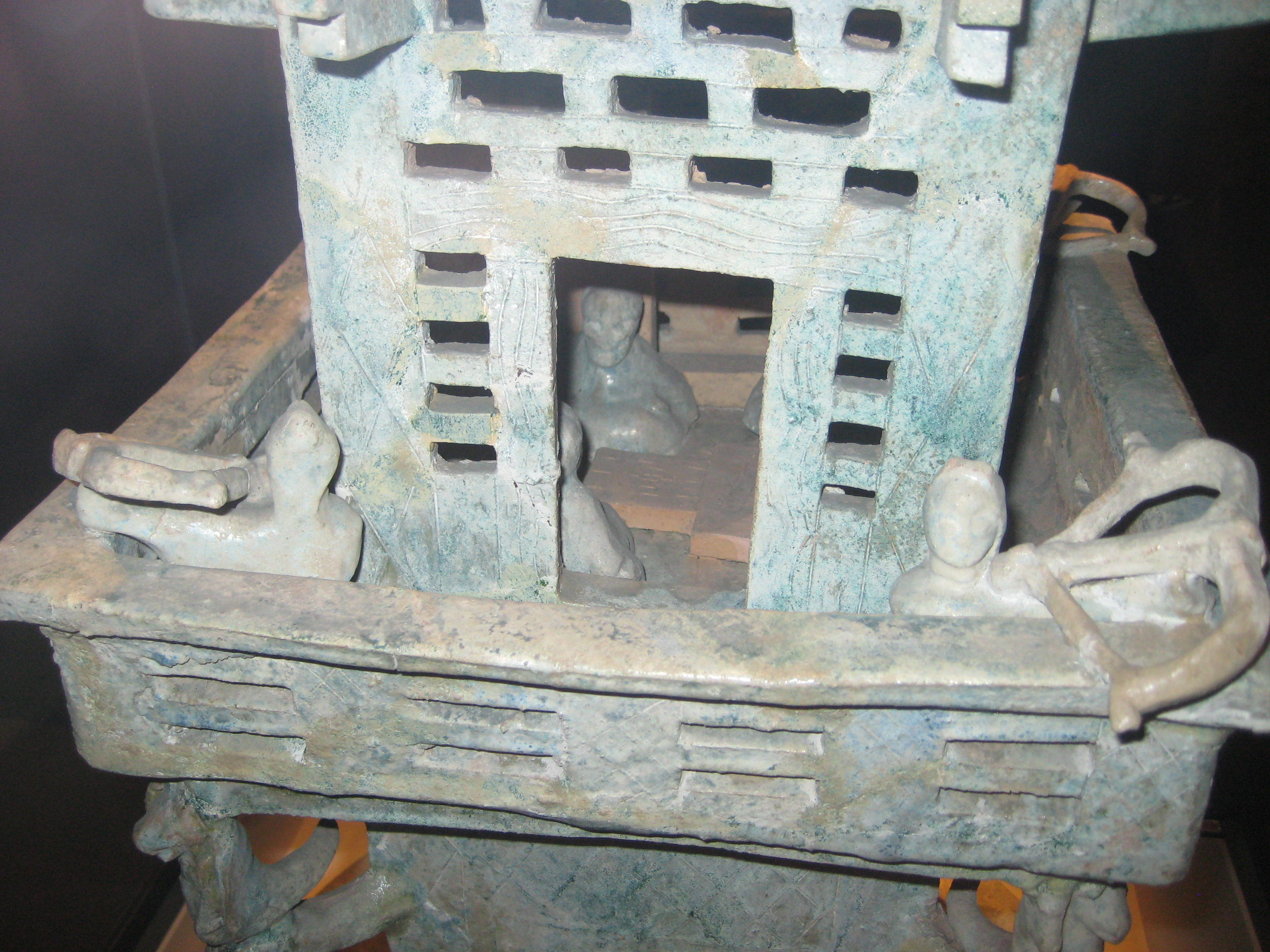 Liubo players inside agreen-glazed pottery tower from the Eastern Han Dynasty. Unearthed at Liujiaqu, Shaanxian, Henan Province, 1956.